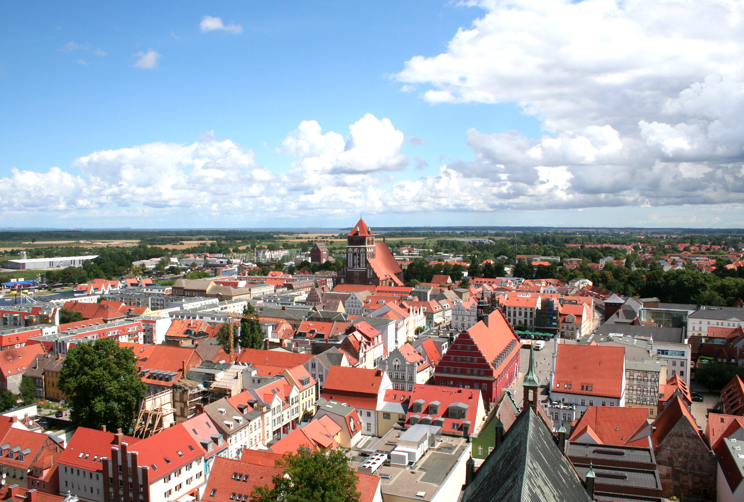 Ernst-Moritz-Arndt-Universität Greifswald in the town of Greifswald.